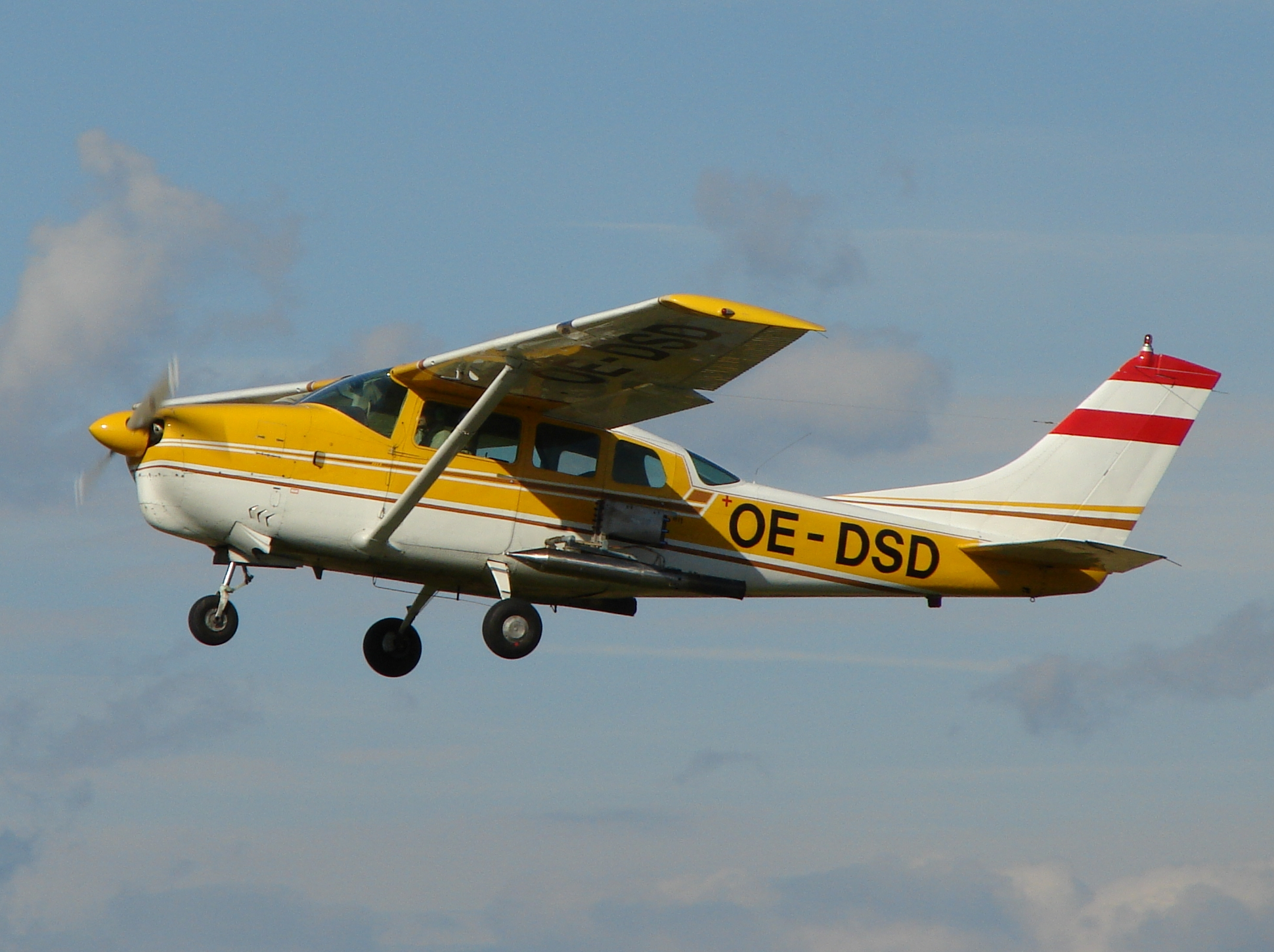 Cessna 210 (OE DSD), rebuilt for cloud seeding, with 2 silver iodide generators